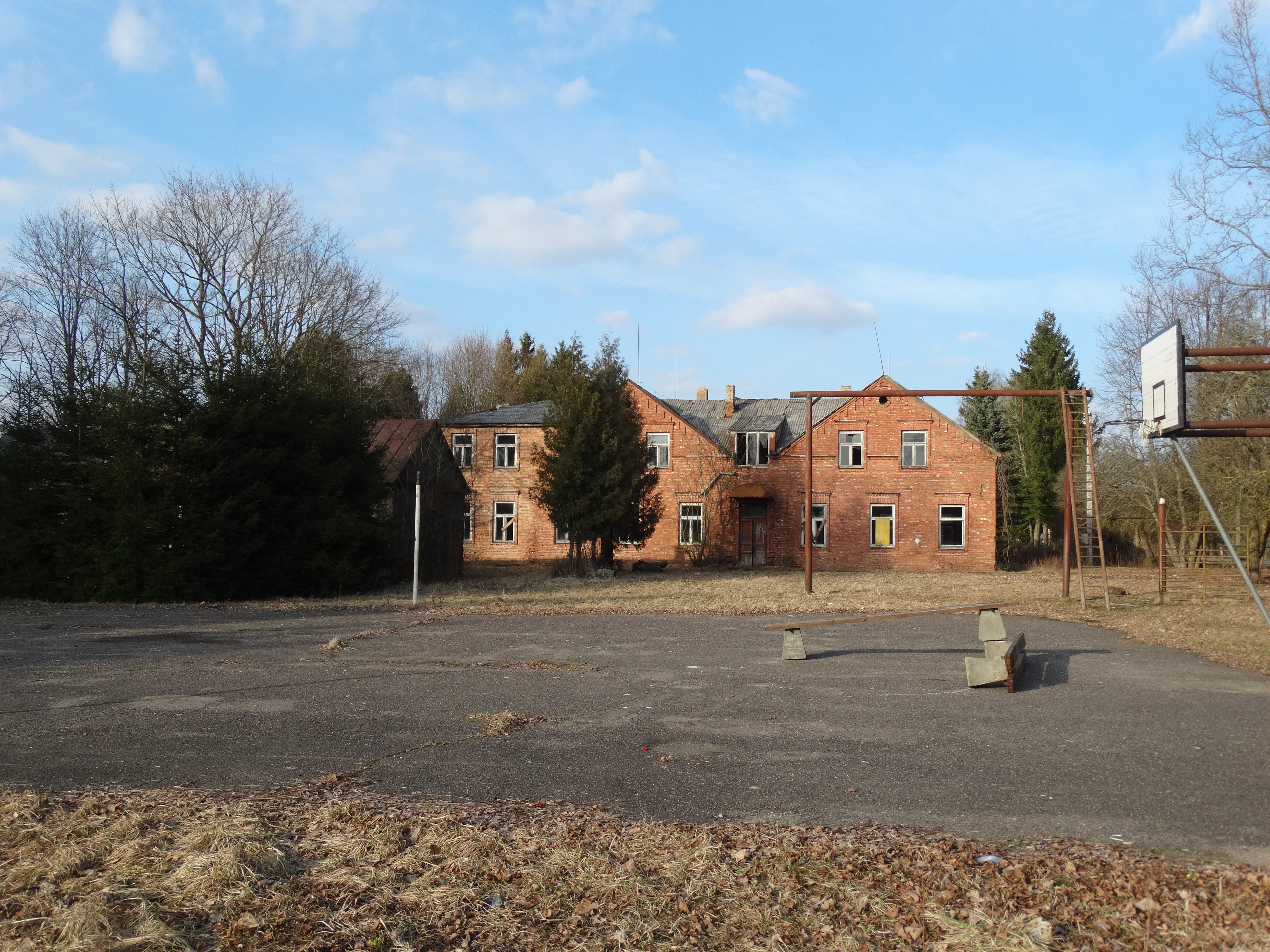 Former school in Stakiai, Jurbarkas district, Lithuania